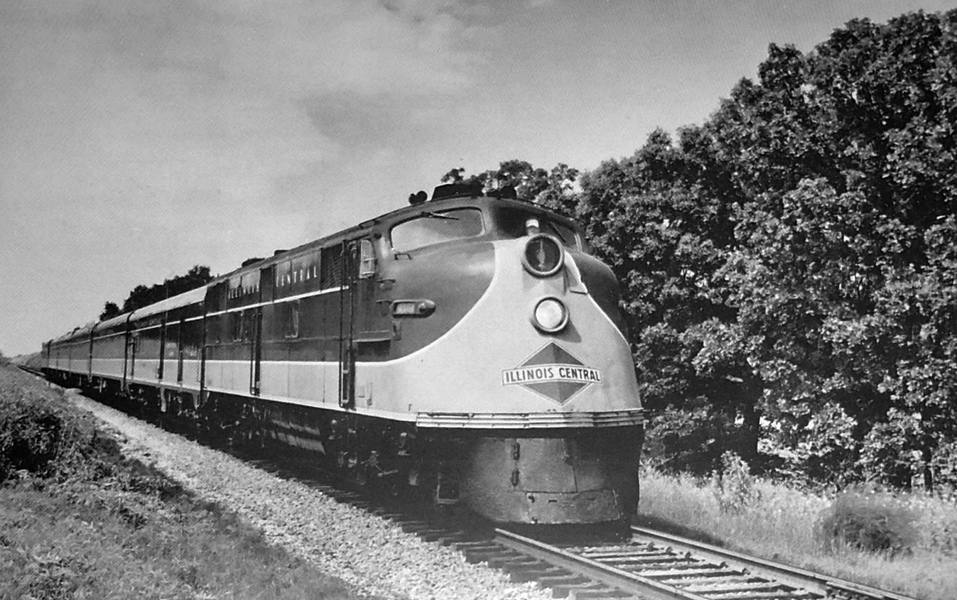 Postcard photo of the Illinois Central train the Land O'Corn. The train traveled between Chicago and Waterloo, Iowa.